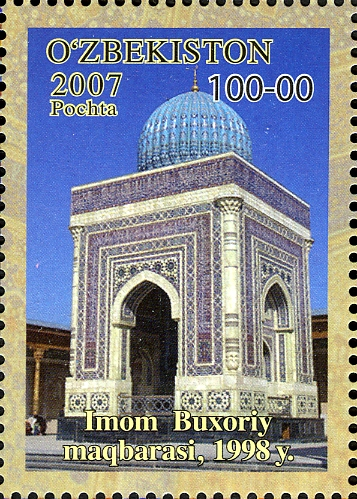 Stamps of Uzbekistan, 2007